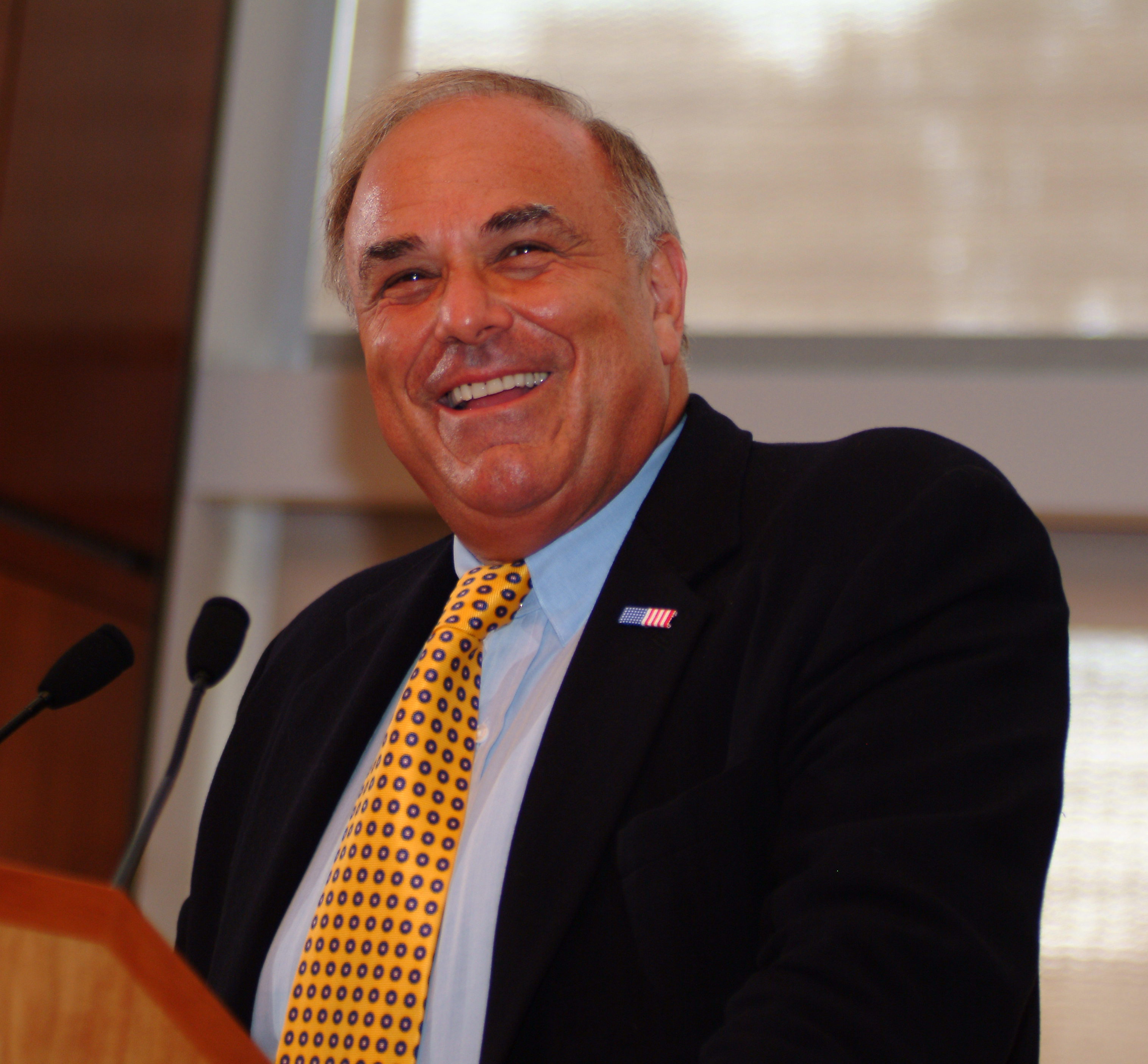 Photograph of Democratic Governor Ed Rendell at Innovation Day, 14 September 2004, at the Chemical Heritage Foundation, Philadelphia, PA, USA.